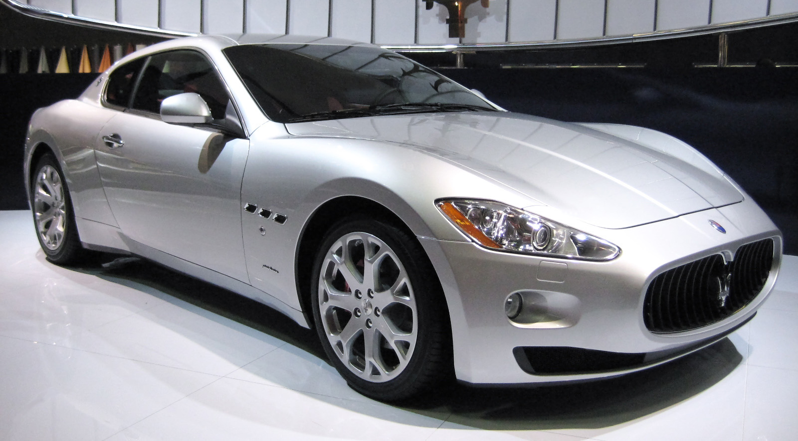 Maserati GranTurismo photographed in Tokyo Motor Show 2007